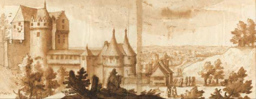 Schaerbeek city gate, October 1613. Drawing of Cantagallina held in KMSKB.